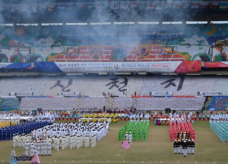 On 16 September, 2012, Shinchonji hosted the 6th Shinchonji National Olympiad in Olympic Stadium in Seoul.